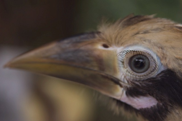 A young Philippine Tarictic Hornbill Photographer: Noah Jackson Permission to publish this image was given personally by Noah Jackson. For verifications contact him at . Noah is currently (July 2004) on the island of Panay, Philippines doing extensive research and preservation work on this bird. People interested in Noah's work and human/wildlife images may contact him at the above given email address.